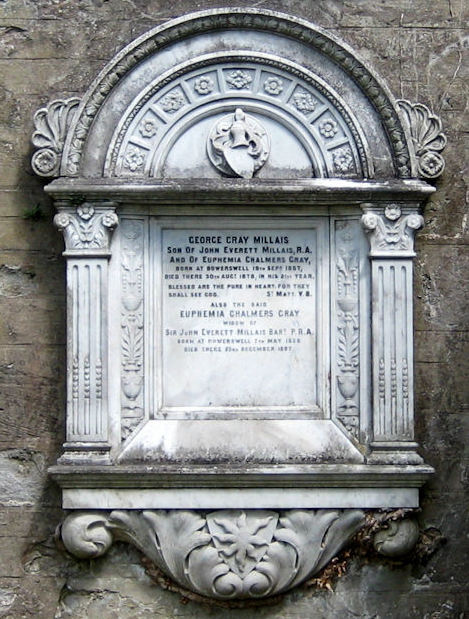 Effie Gray's memorial.